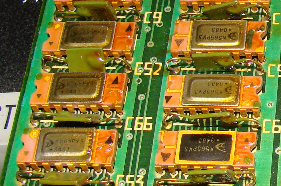 USSR made Dynamic RAM K565RU3